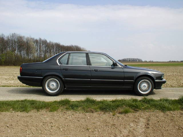 Image created June 6th 2005 by user:rpvdk